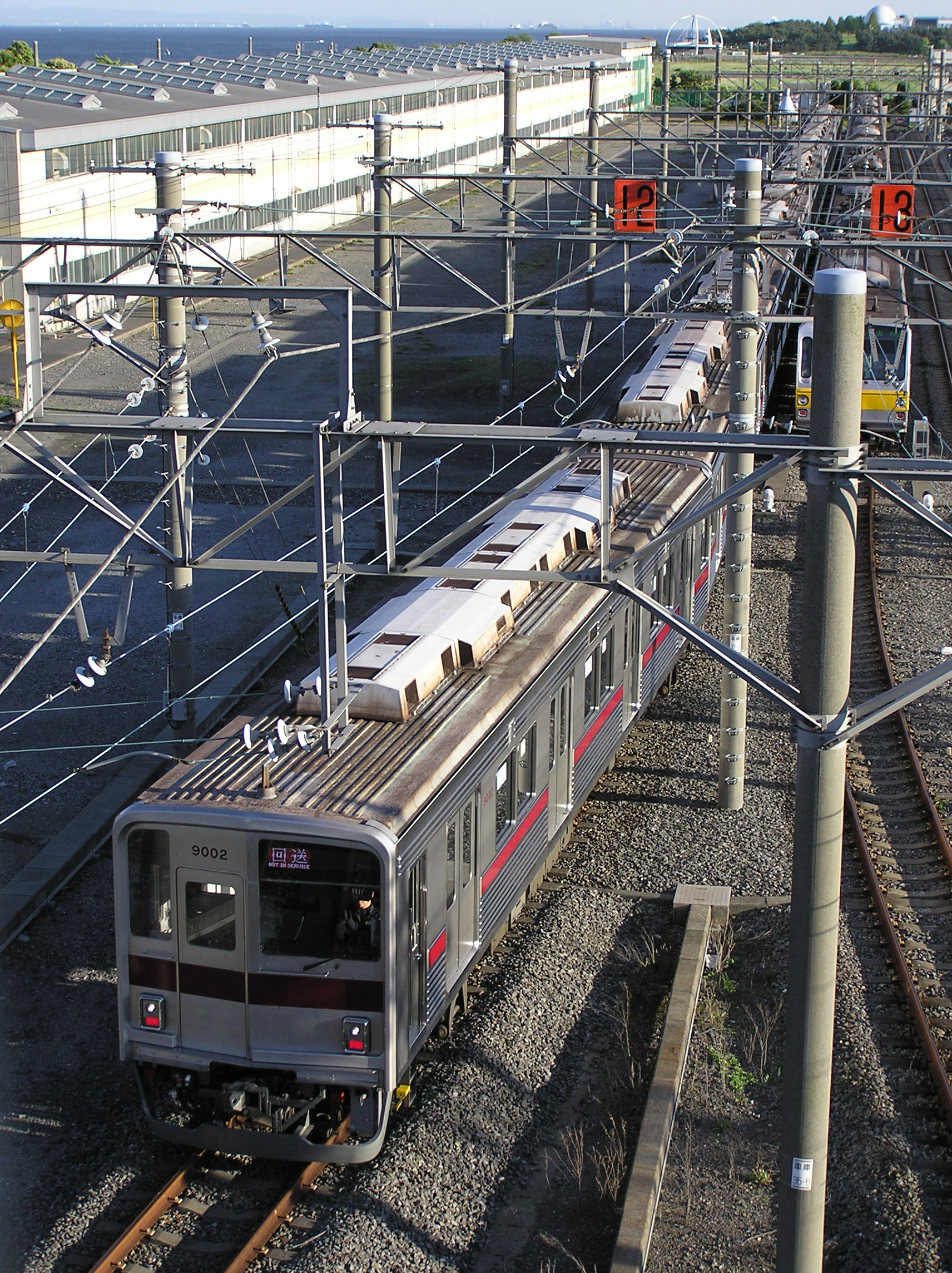 撮影地Place of photo新木場検車区撮影の状況How to take公道から撮影At public roadトリミングの有無Cropped or not非トリミングNot Cropped内容Description東武9000系9102F更新車Tōbu 9000 series